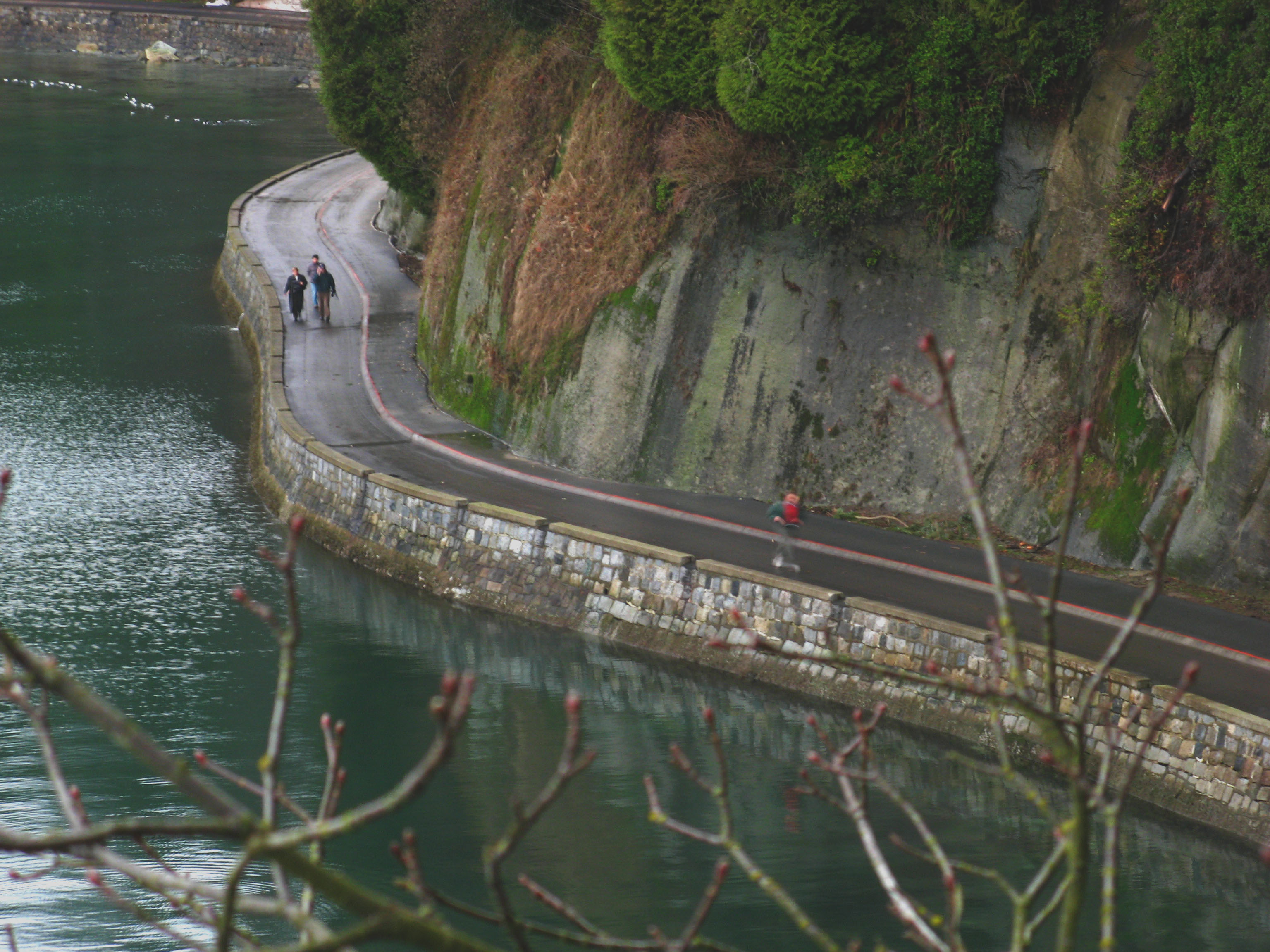 Seawall around Stanley Park in Vancouver, Canada. Photo taken 2006 by me.